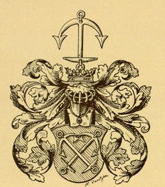 Coats of arms of the Barons of Neveu